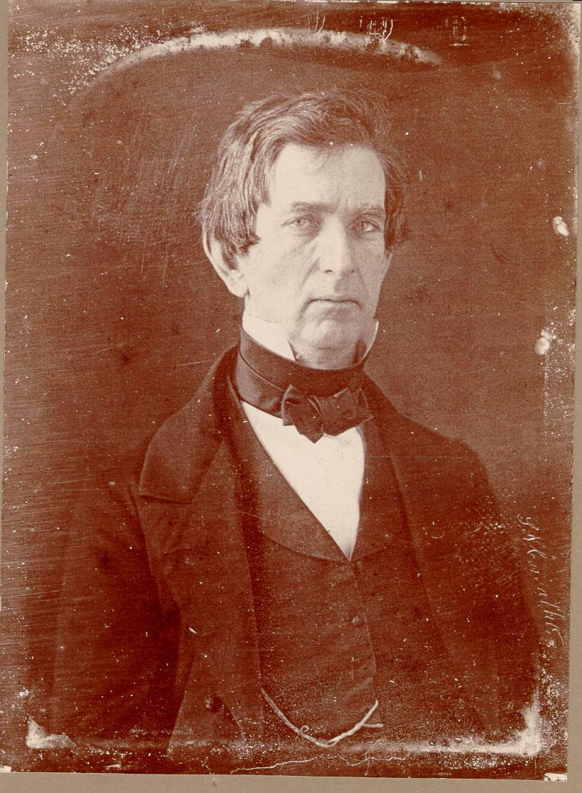 J. Tejeda, NY. Secretary Wm. H. Seward. Image measure 6 1/4" x 4 1/2" on board measuring 10" x 8." On back is written in pencil "Secretary Wm. H. Seward from a daguerreotype made in 1849-1850 owned by his son Fred'k W. Seward, Montrose, N.Y.